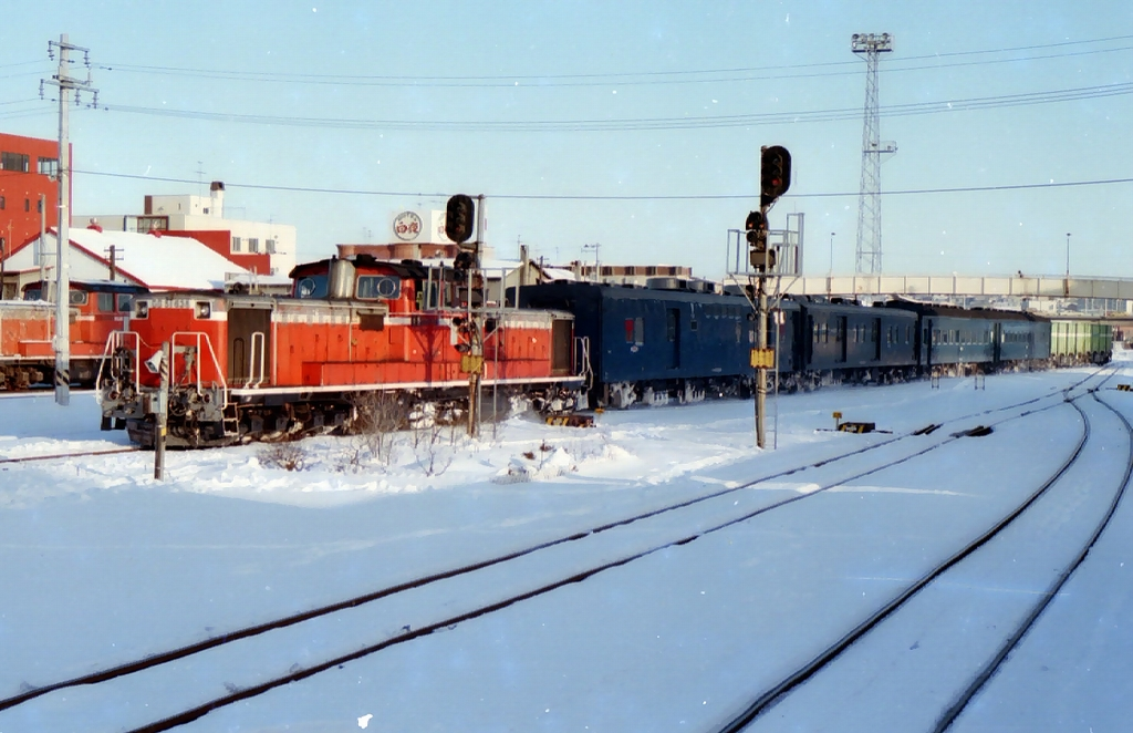 A JNR Class DD51 diesel locomotive approaching Kushiro Station with a Nemuro Line mixed train service (train No. 442)